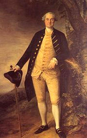 Portrait of William Gage, 2nd Viscount Gage (1718–1791), British politician.